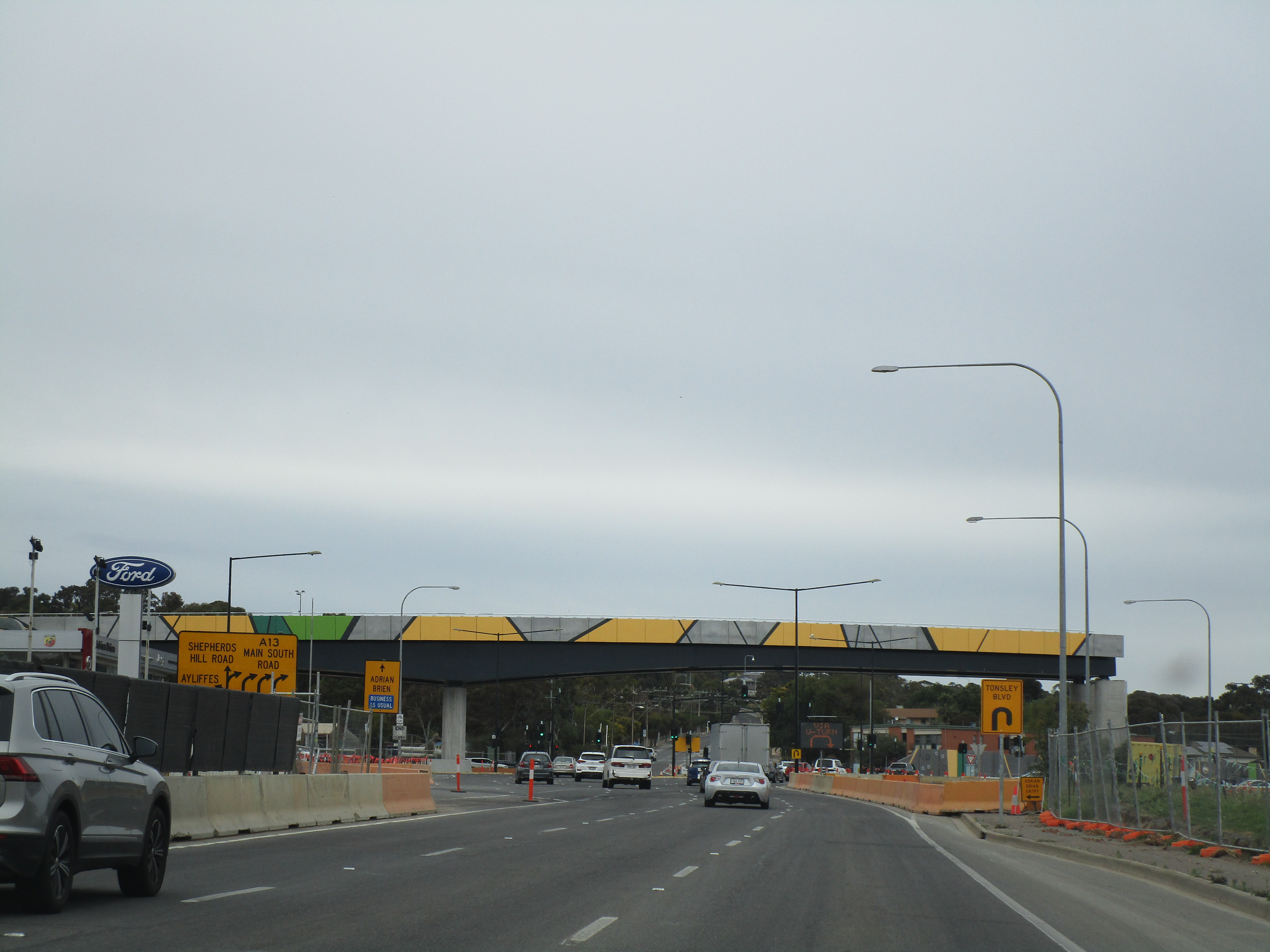 This is the part of the bridge from South Road to Ayliffes Road that was built on the median strip and moved into to place using multi-wheeled lifters. The rest of the bridge will be built the "conventional way". Part of the Darlington Upgrade.